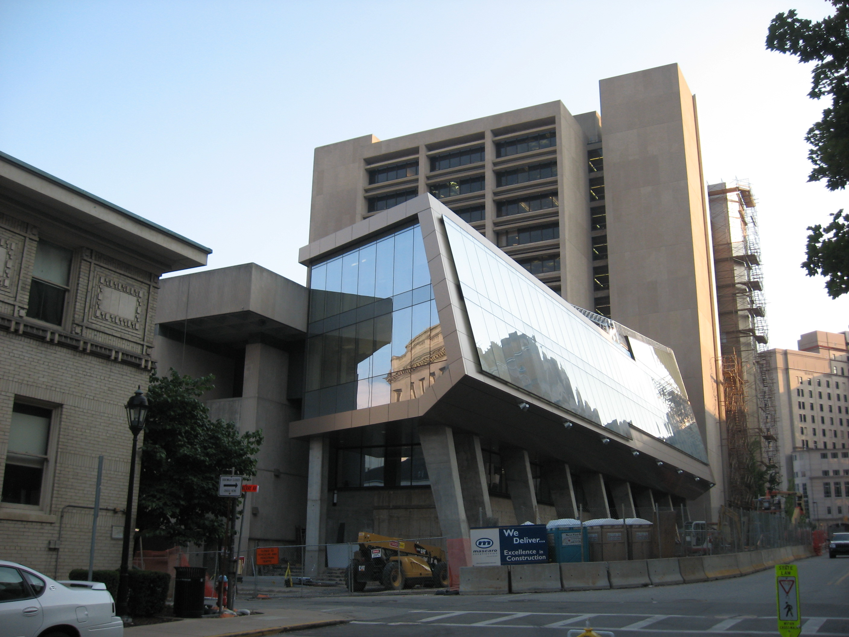 The Swanson School of Engineering at University of Pittsburgh